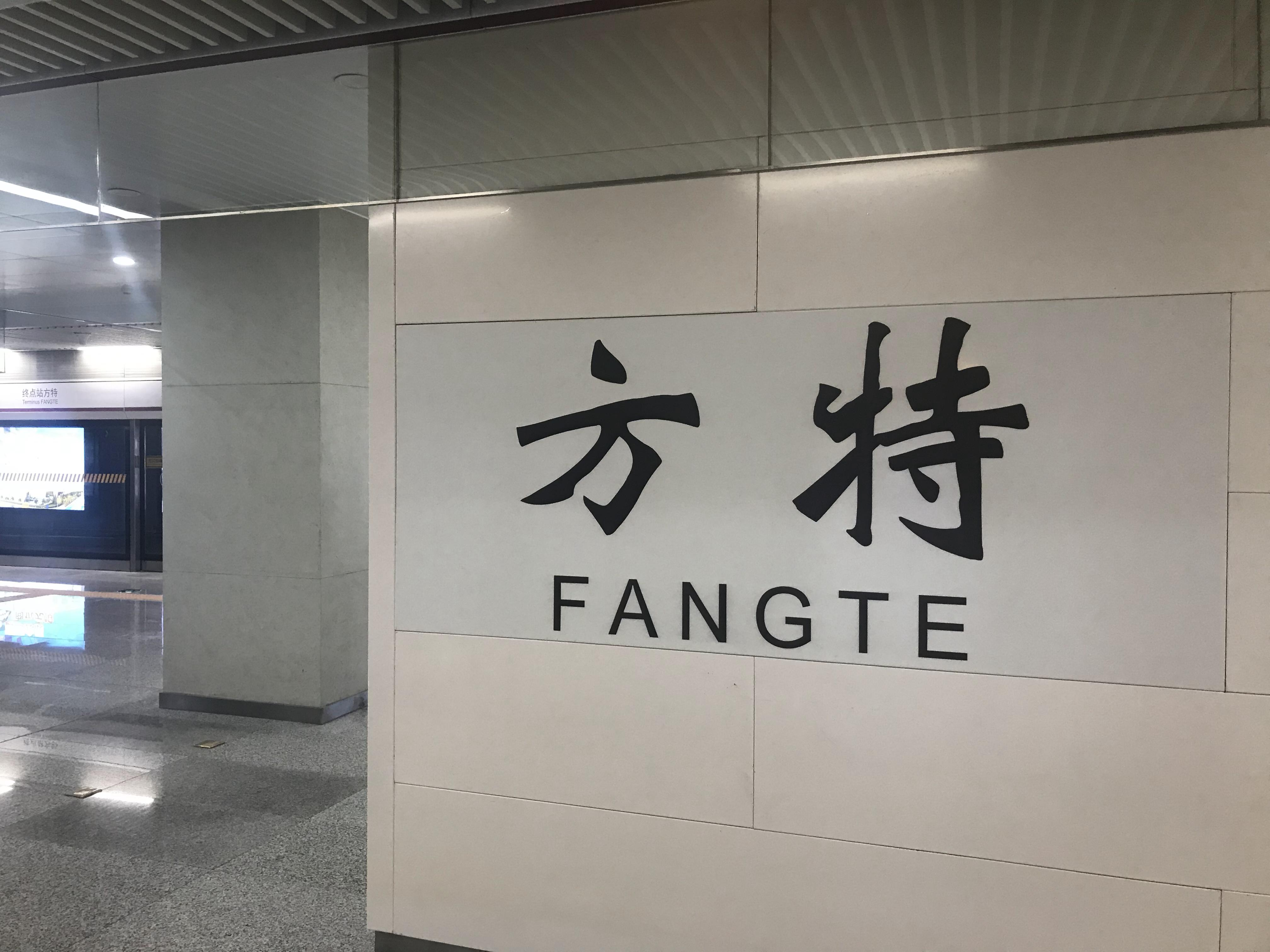 中文（中国大陆）: Fangte Station of Jinan Metro Line 1